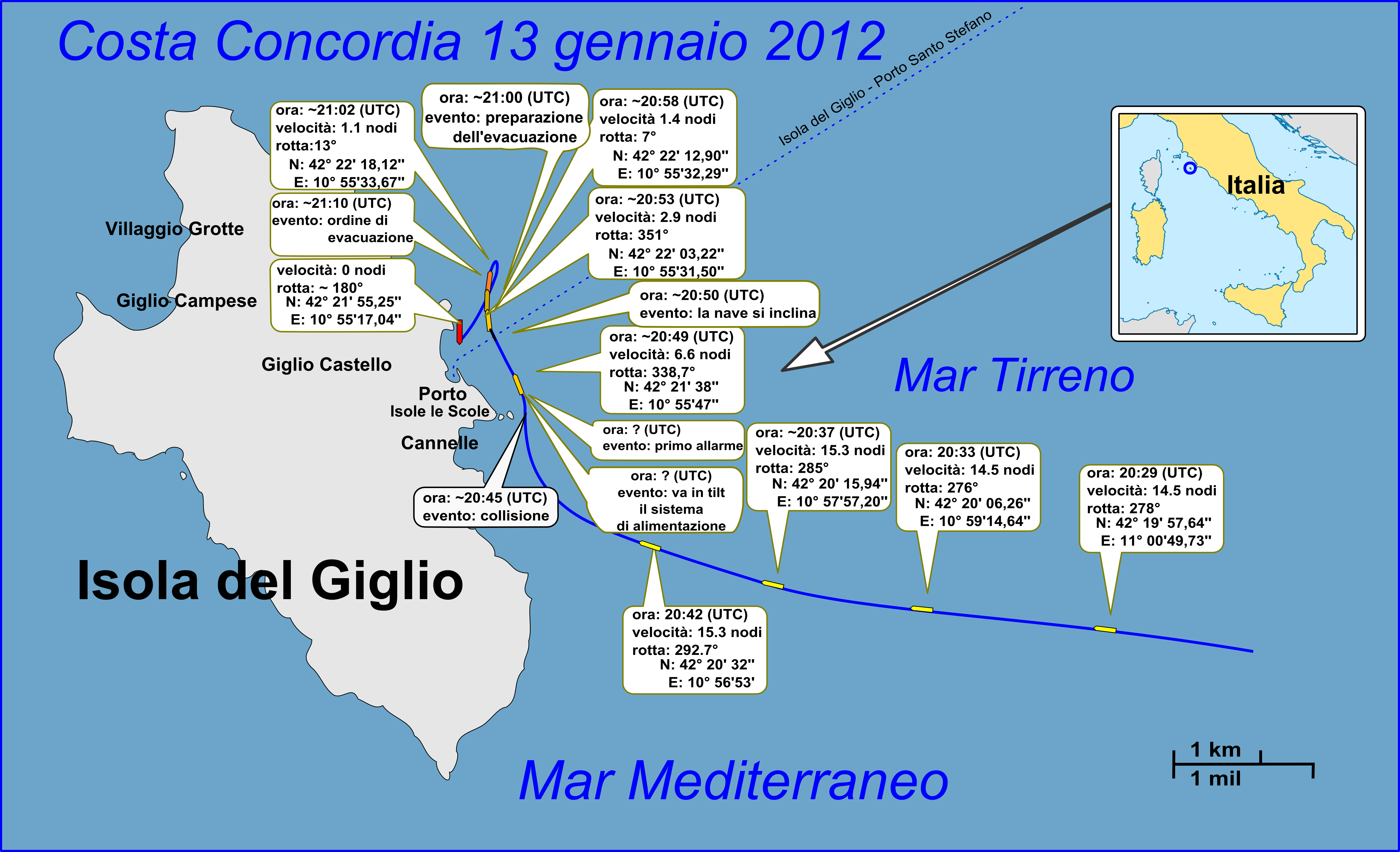 Timeline of the disaster of the Costa Concordia